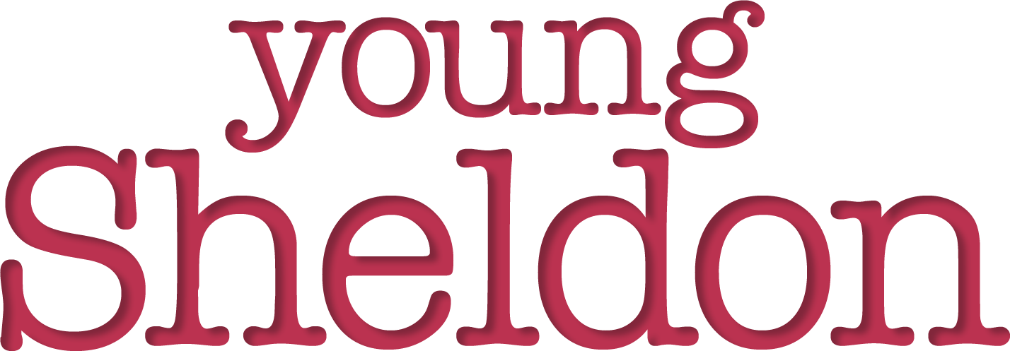 Logo of Young Sheldon